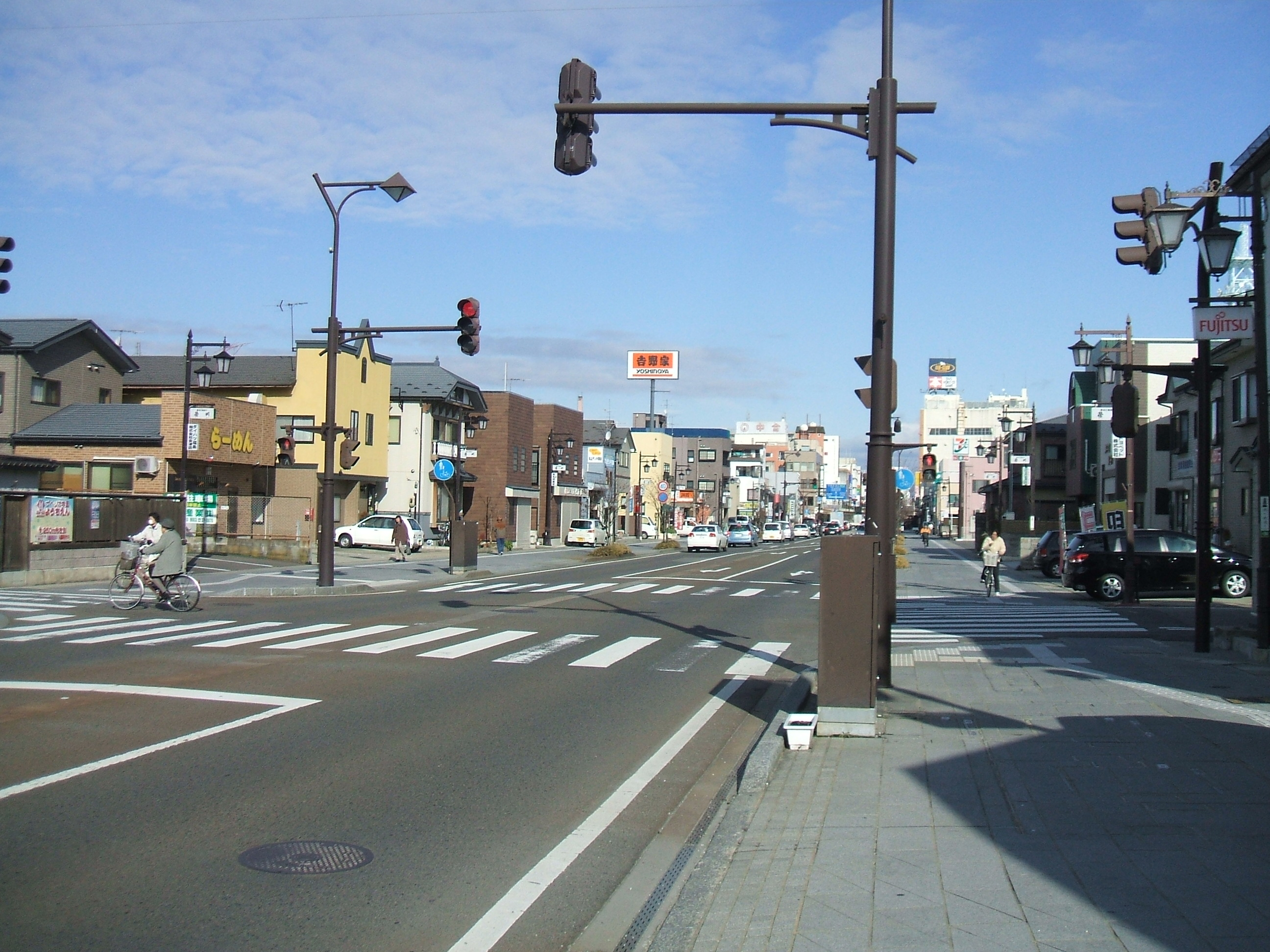 This is a landscape of Higashisakaemachi-town, Aizuwakamatsu, Fukushima.